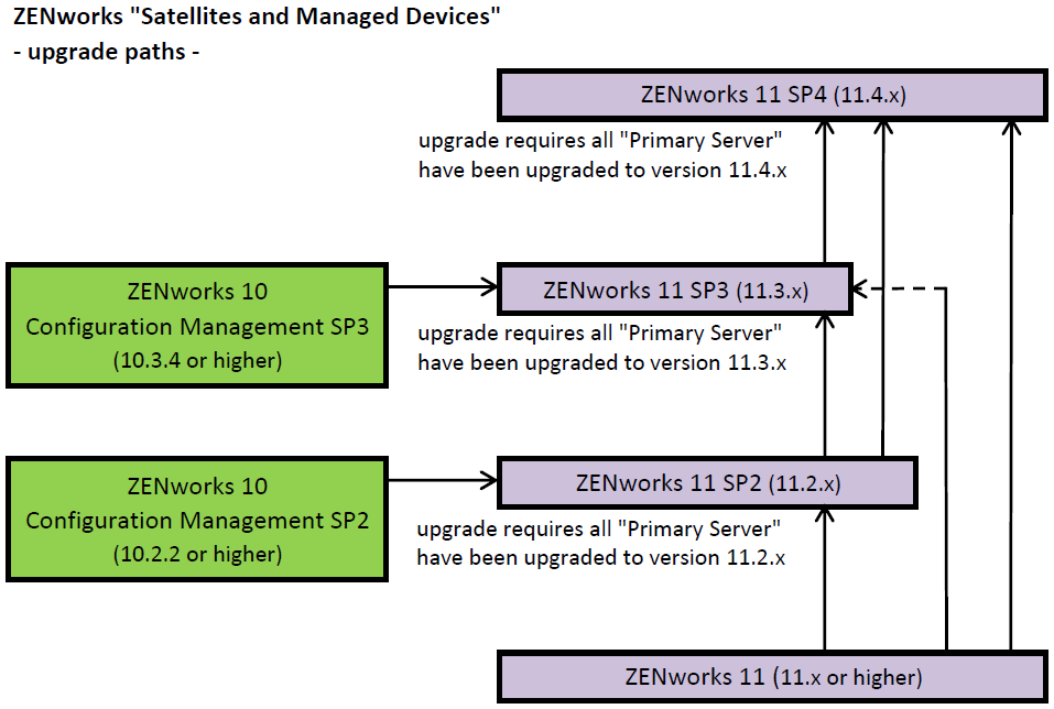 Novell ZENworks "Satellites and Managed Devices": Upgrade paths version 10.2.2 to 11.4.